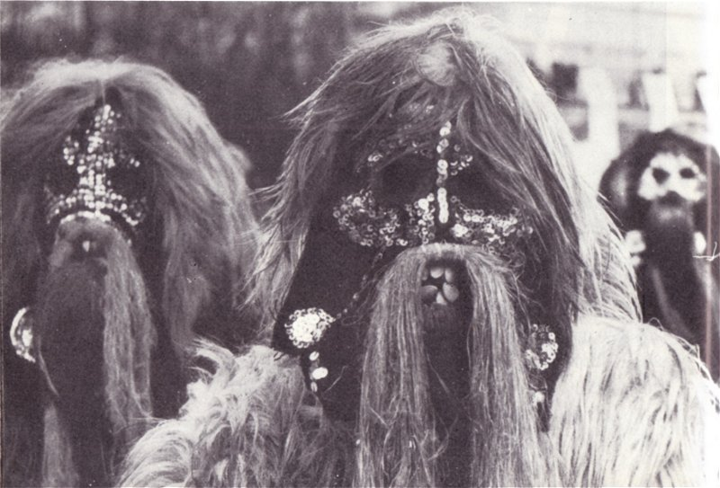 Kukeri masks from the village of Zidarovo, Bourgas